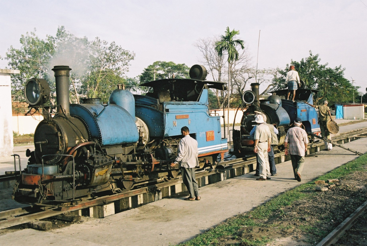 DHR Locomotives 780 and 804 being prepared at Siliguri Shed. 18th February 2005 Photographer - A.M.Hurrell Camera - Minolta X700 (35mm film) Modified - Scanned by film developer. File size and definition changed using Adobe Photoshop 5.0LE